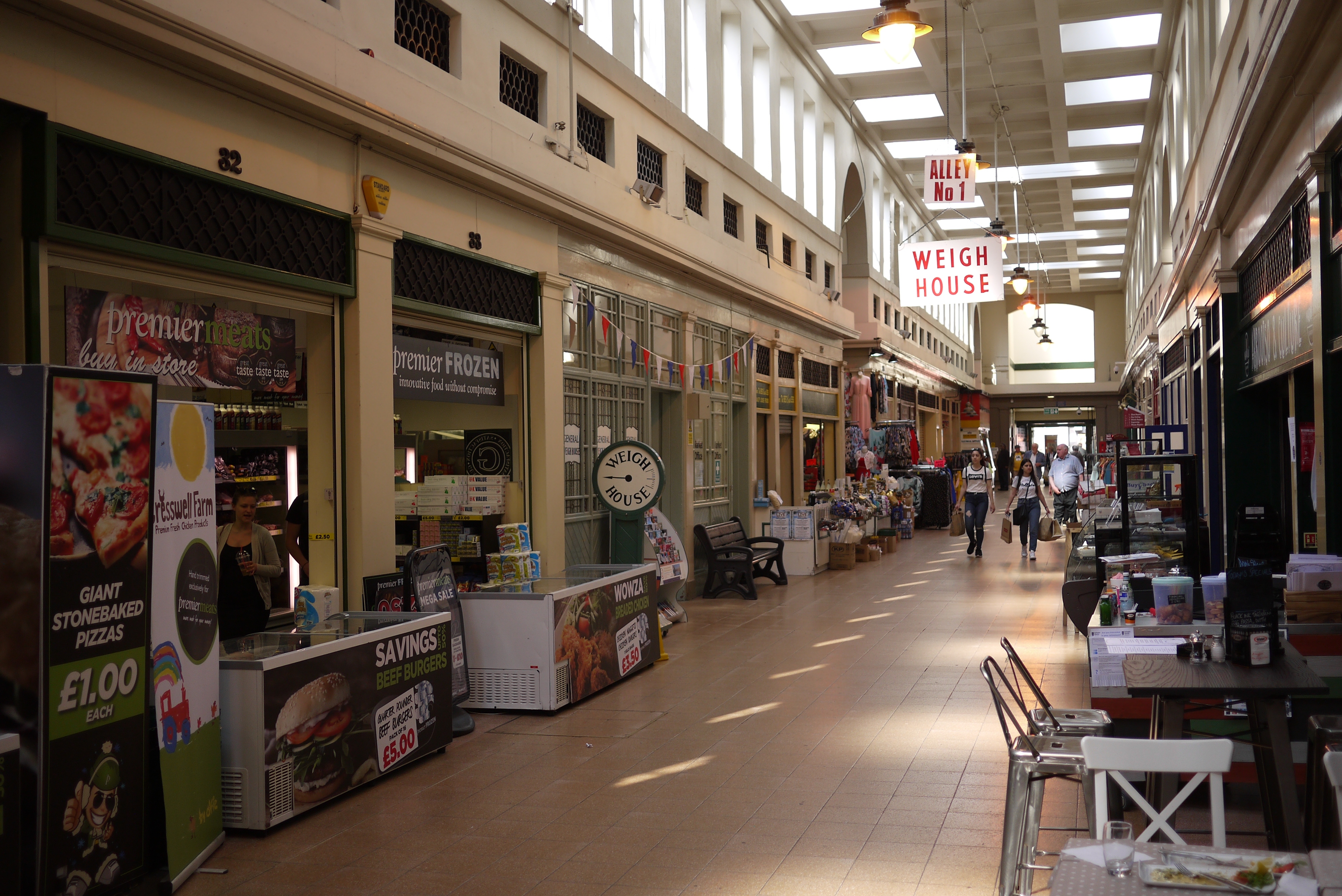 Grainger Market, Newcastle